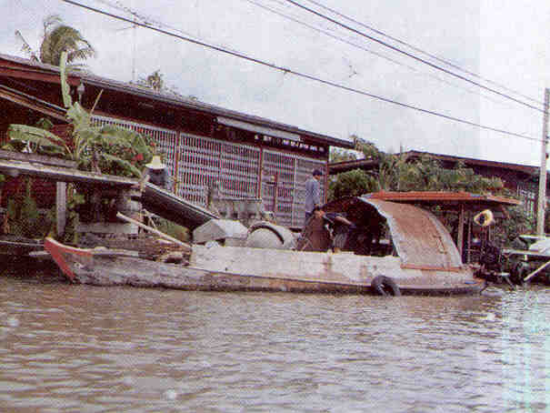 Prasatsit Temple